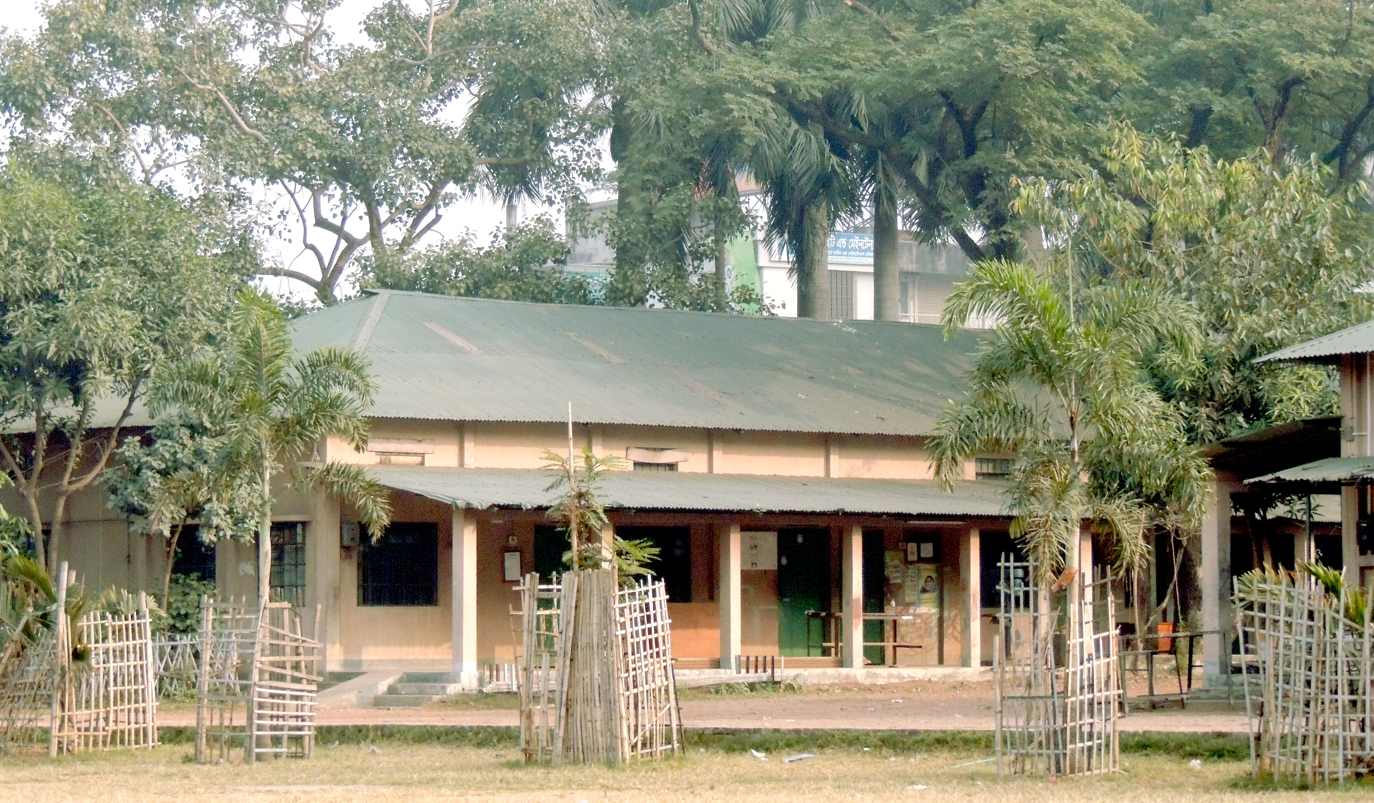 Notre Dame Literacy School, Notre Dame College, Dhaka